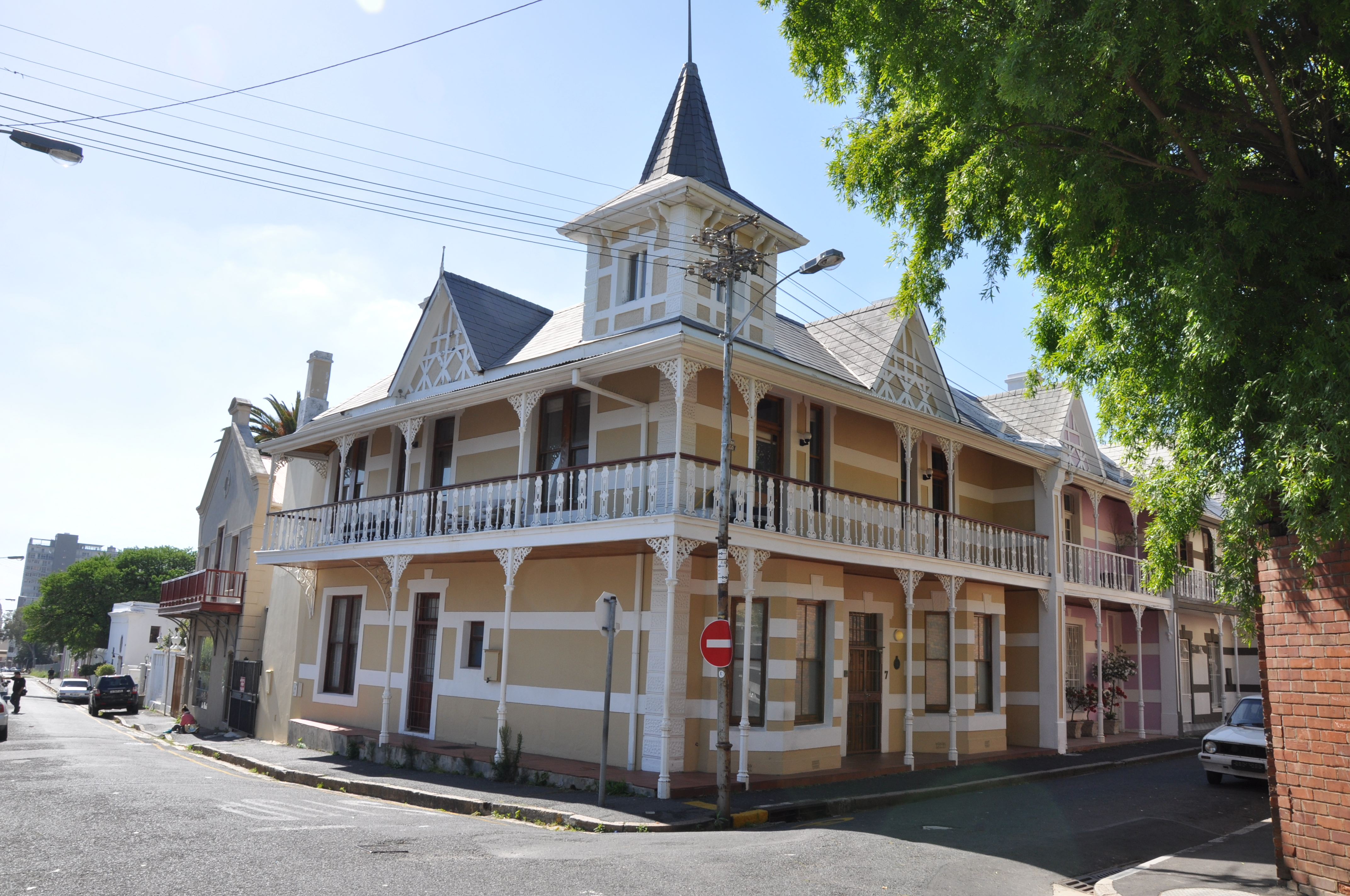 7 Glynville Terrace, Gardens, Cape Town This media shows a South African Protected Site with SAHRA file reference 9/2/018/0202.